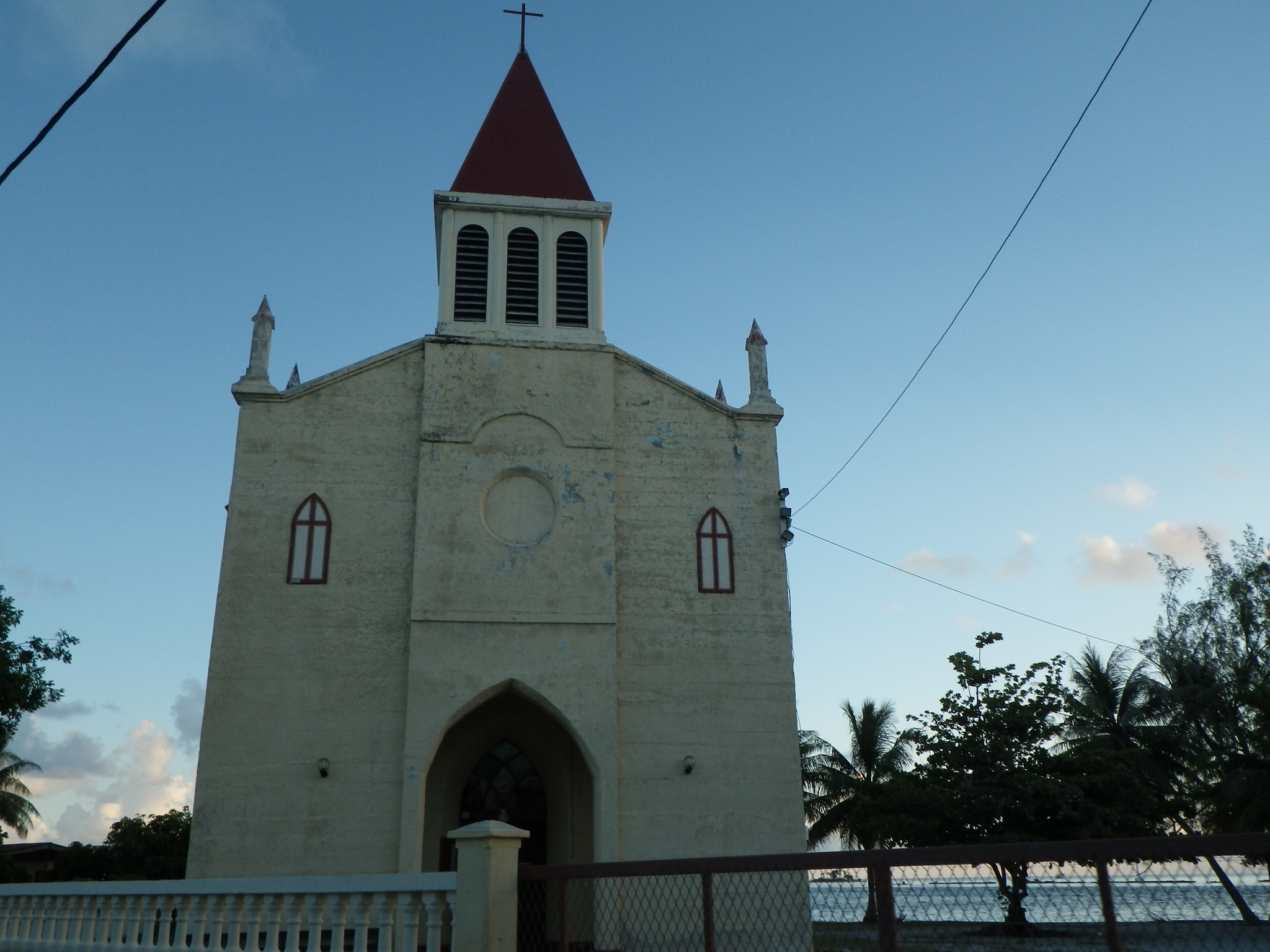 Avatoru Catholic Church